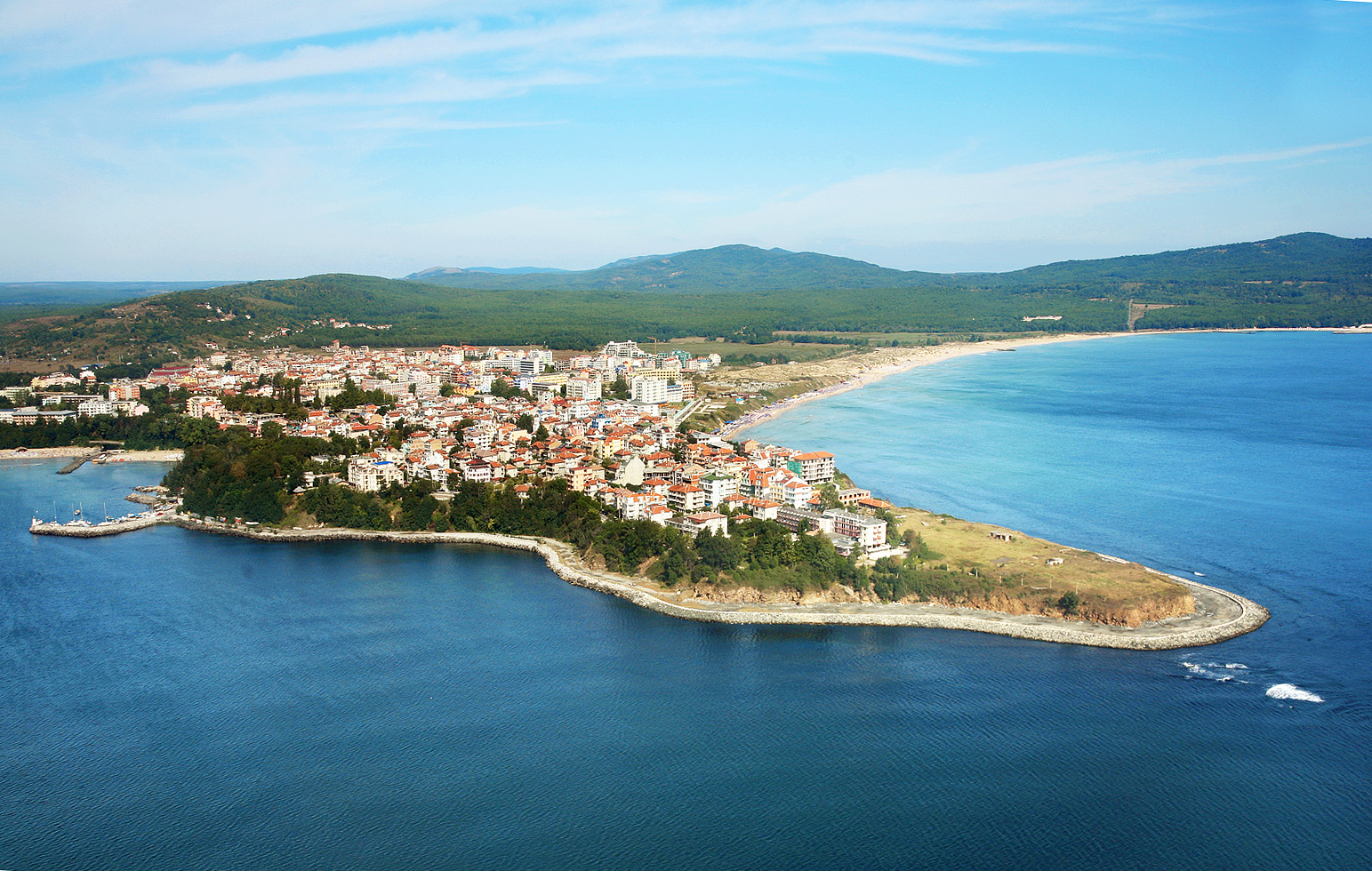 The main part of the town in foreground, far to the right is the north beach of Primorsko, far to the left - the beginning of the south beach. Shot from a small plane.